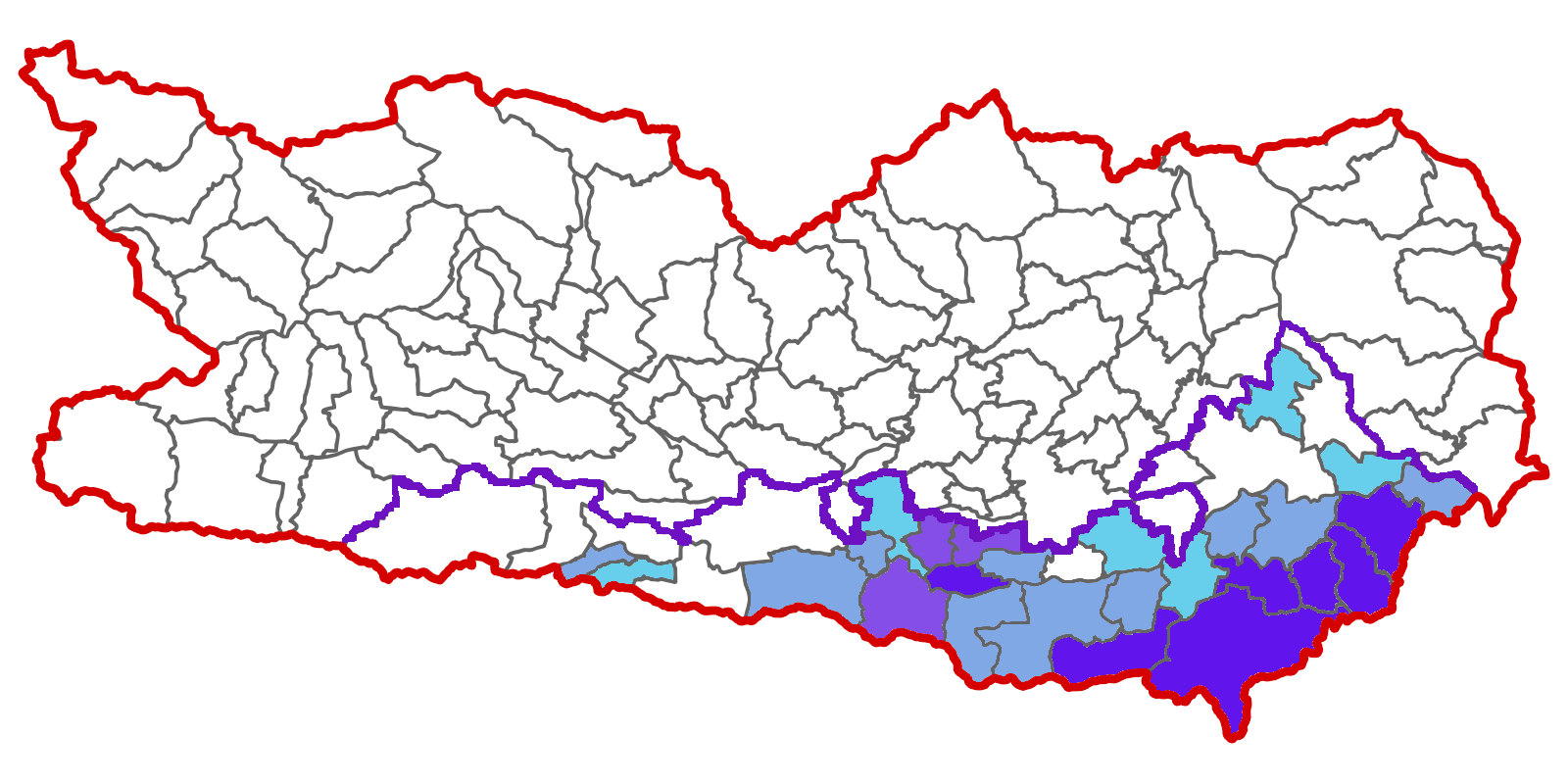 Proportion of Carinthian Slovenes on a municipality level according to the 1971 National Census. The blue borderline indicates the traditional settlement area of Carinthian Slovenes (i.e. those communities which are required by law to offer bilingual classes in elementary schools).